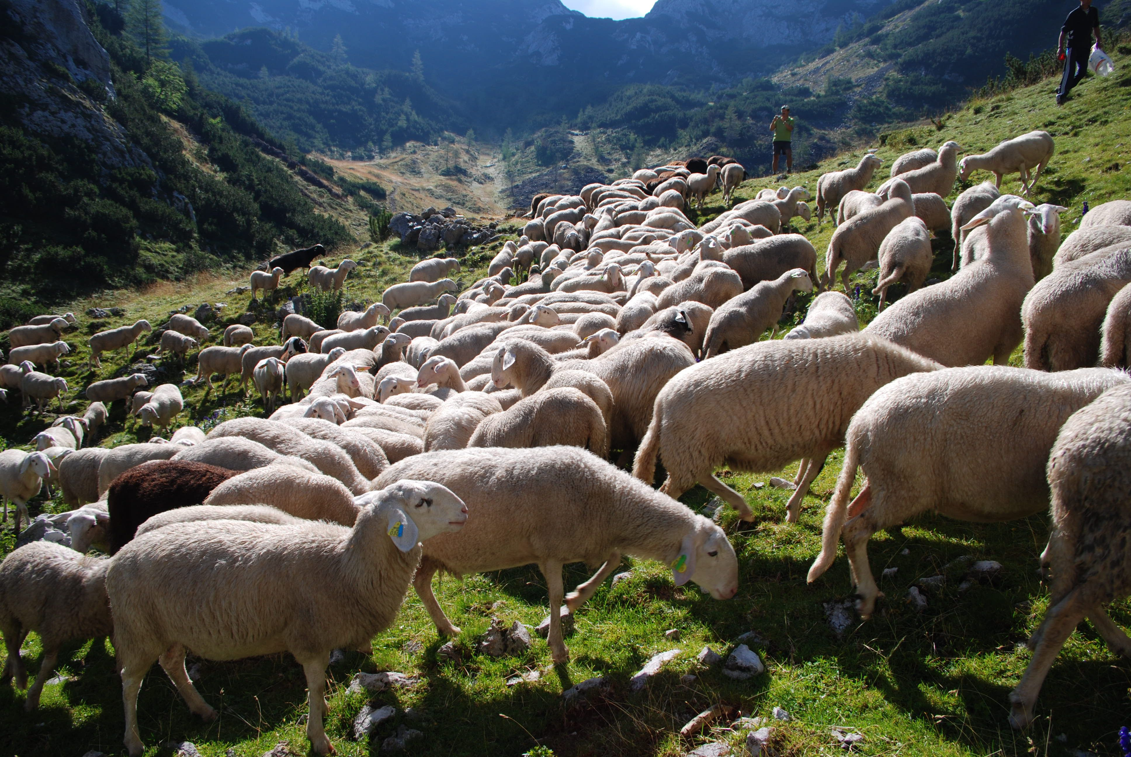 A flock of the Solčava sheep on Molič Pasture (Dleskovec Plateau, Municipality of Luče).